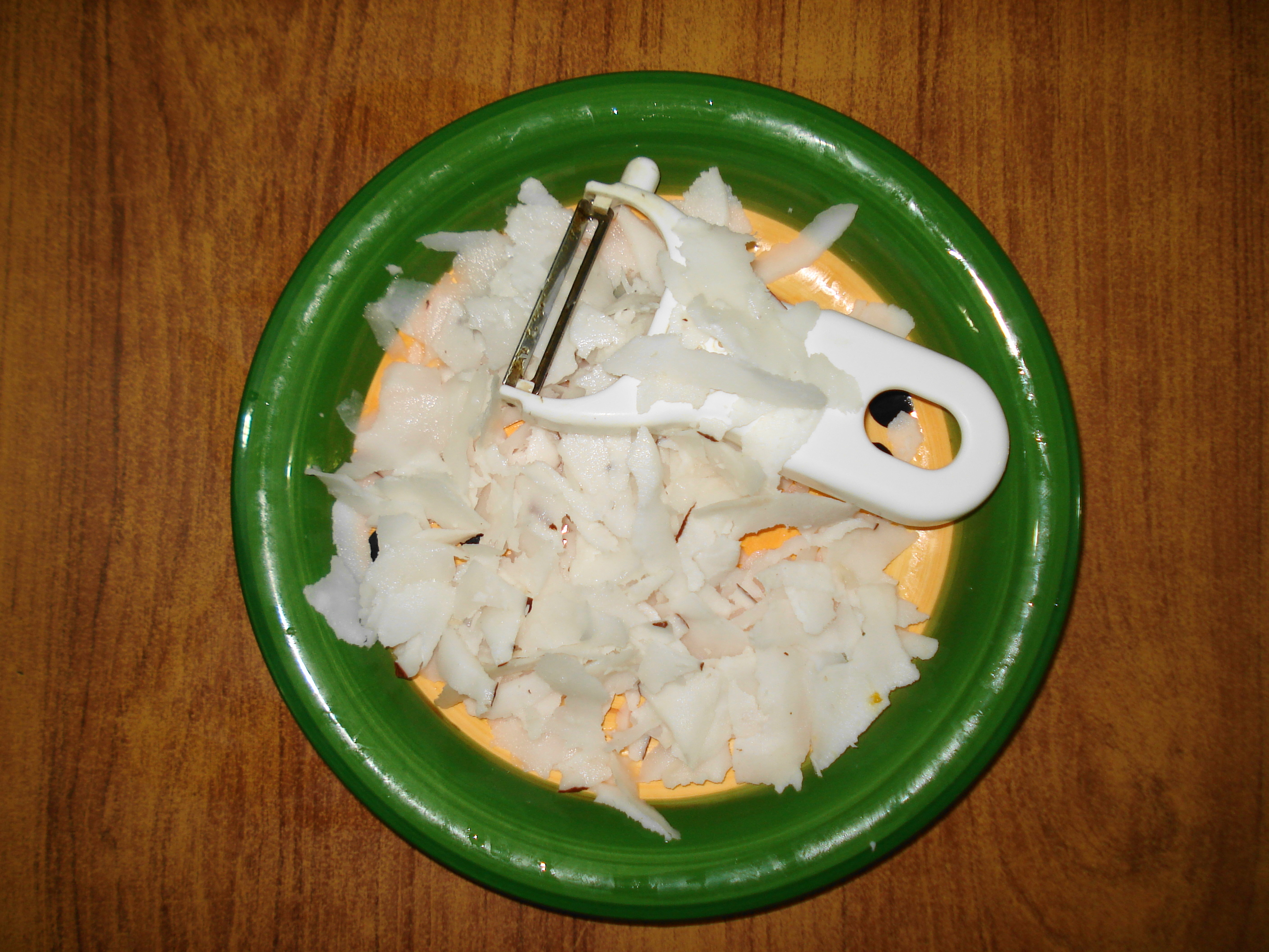 Coconut Milk